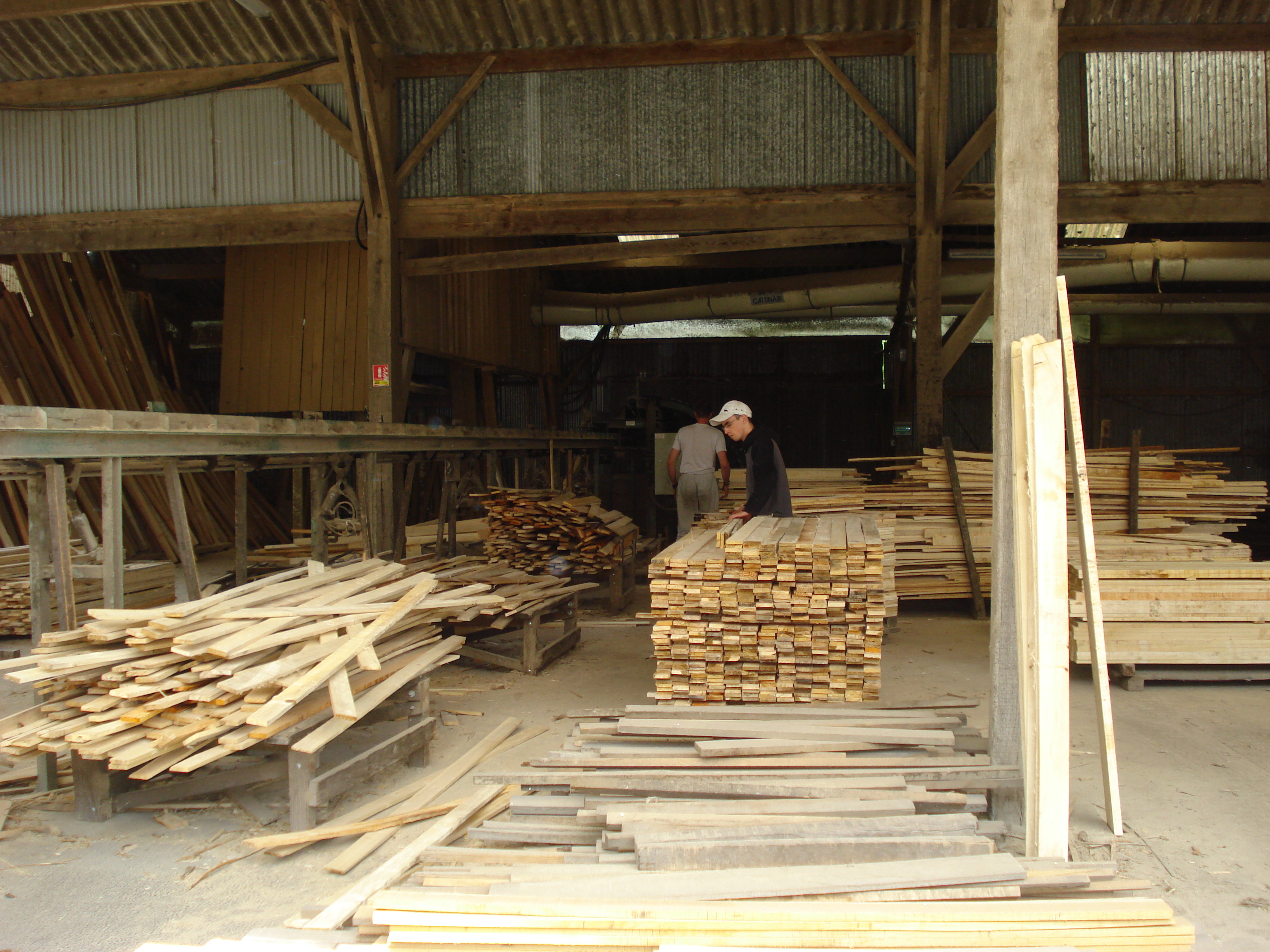 Scierie à Vrigny (Ardennes Fr)